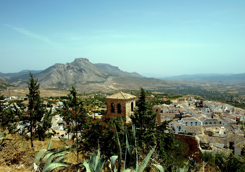 Vélez Blanco. Almeria, Andalucia. On the background: La Muela mountain.